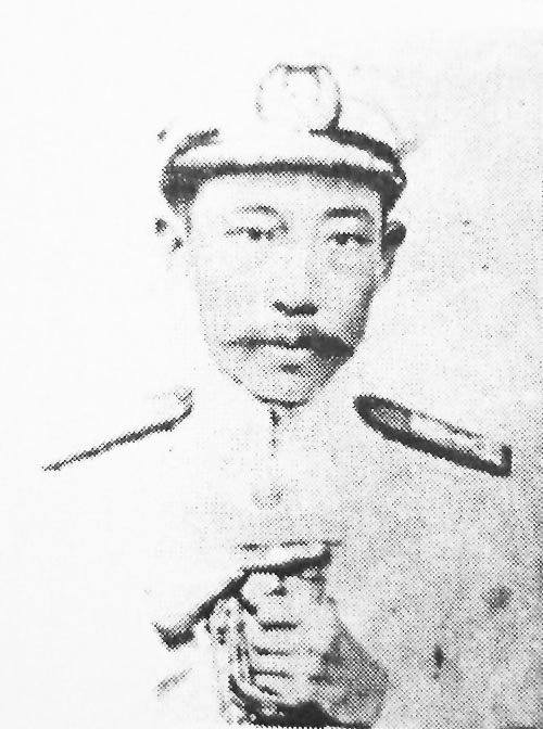 1=Li Xiehe (1873－1927)